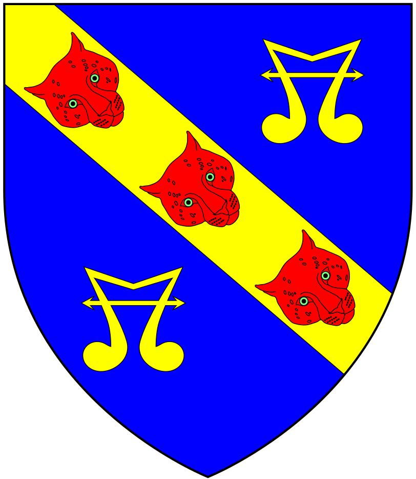 Arms of Hunt of Ham in the parish of Chudleigh, Devon: Azure, on a bend between two water bougets or three leopard's faces gules (Vivian, Lt.Col. J.L., (Ed.) The Visitations of the County of Devon: Comprising the Heralds' Visitations of 1531, 1564 & 1620, Exeter, 1895, p.494) For Ham as the seat of Hunt see: Jones, Mary, History of Chudleigh, 1852[1]